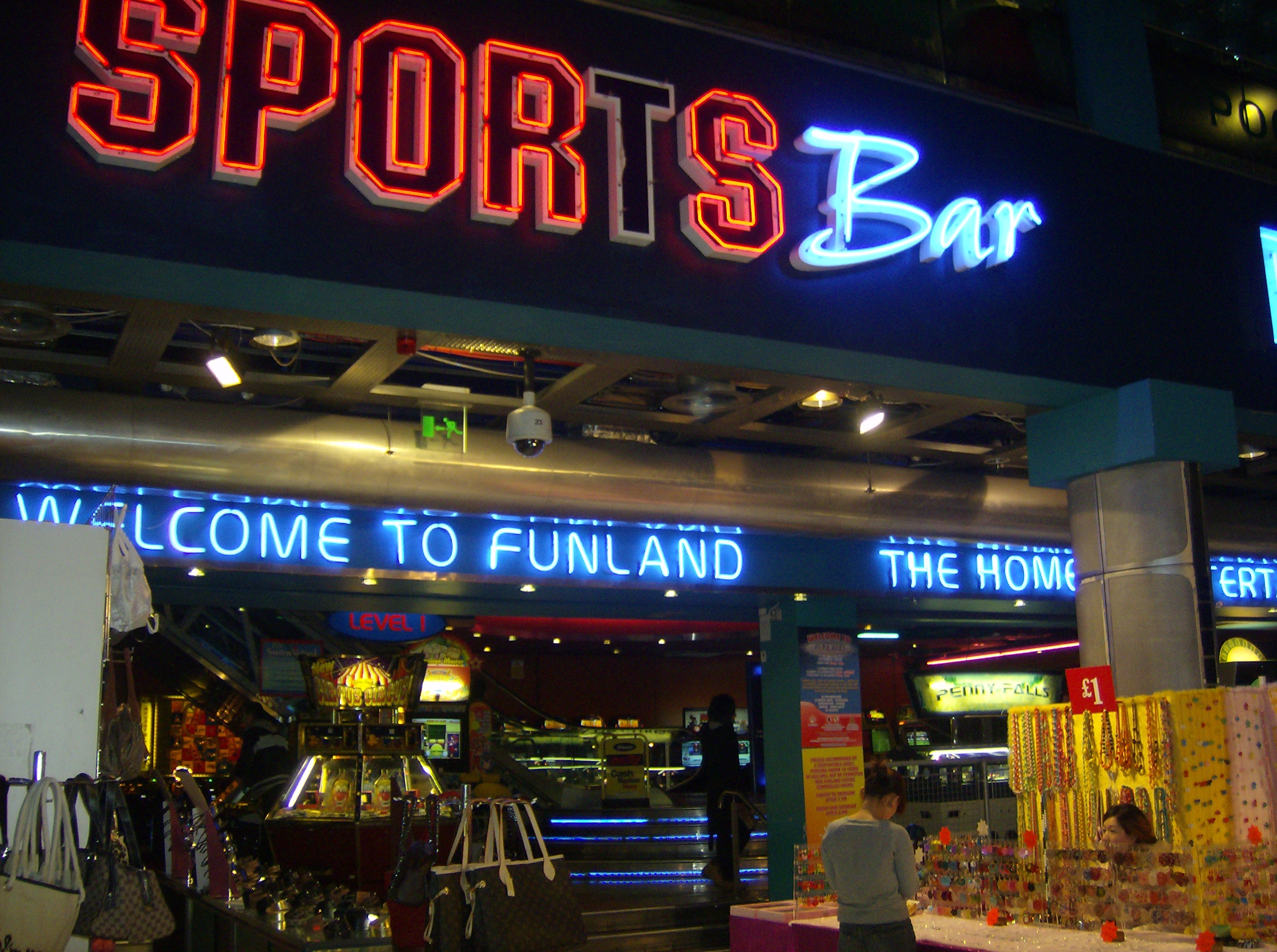 The entrance to the amusement arcade 'Funland' in the London Trocadero, November 2007. Previously known as Segaworld, the long-running arcade was closed in July 2011.